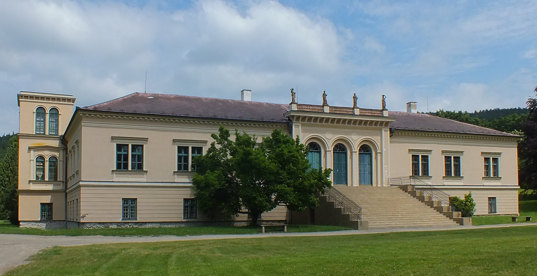 Chateau in Čechy pod Kosířem, the Czech Republic.